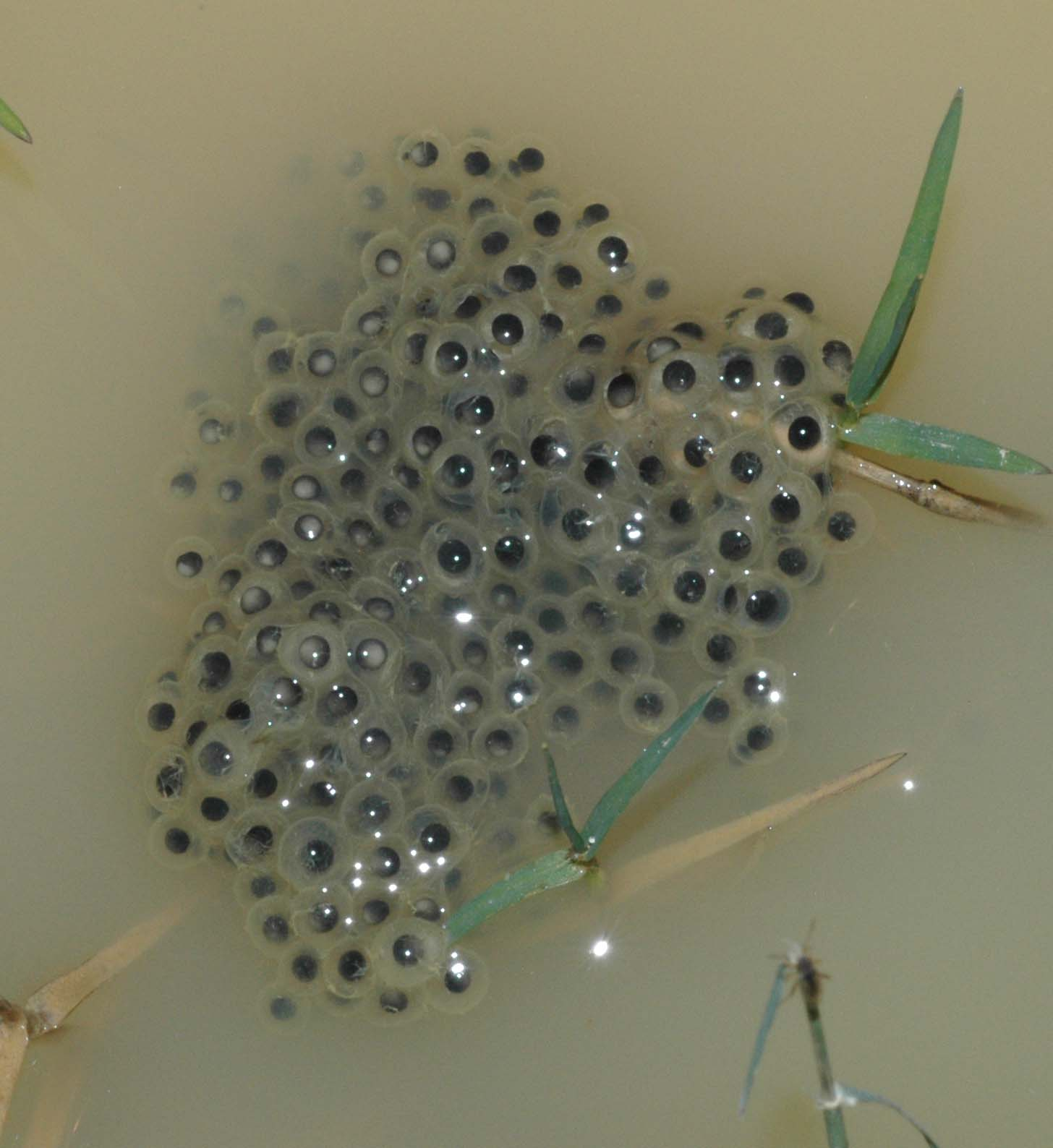 Broad Palmed Frog (Litoria latopalmata) spawn found in the "Watagans", NSW Australia.